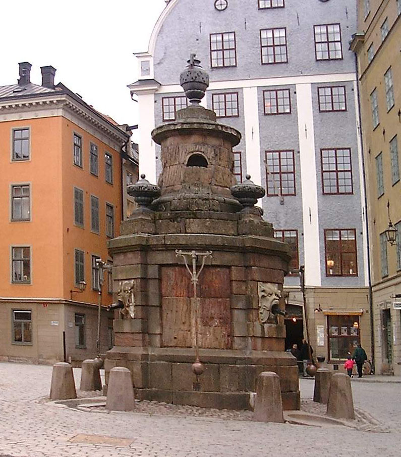 Fountain at Stortorget, Gamla stan, Stockholm. Perspective fixed digitally.